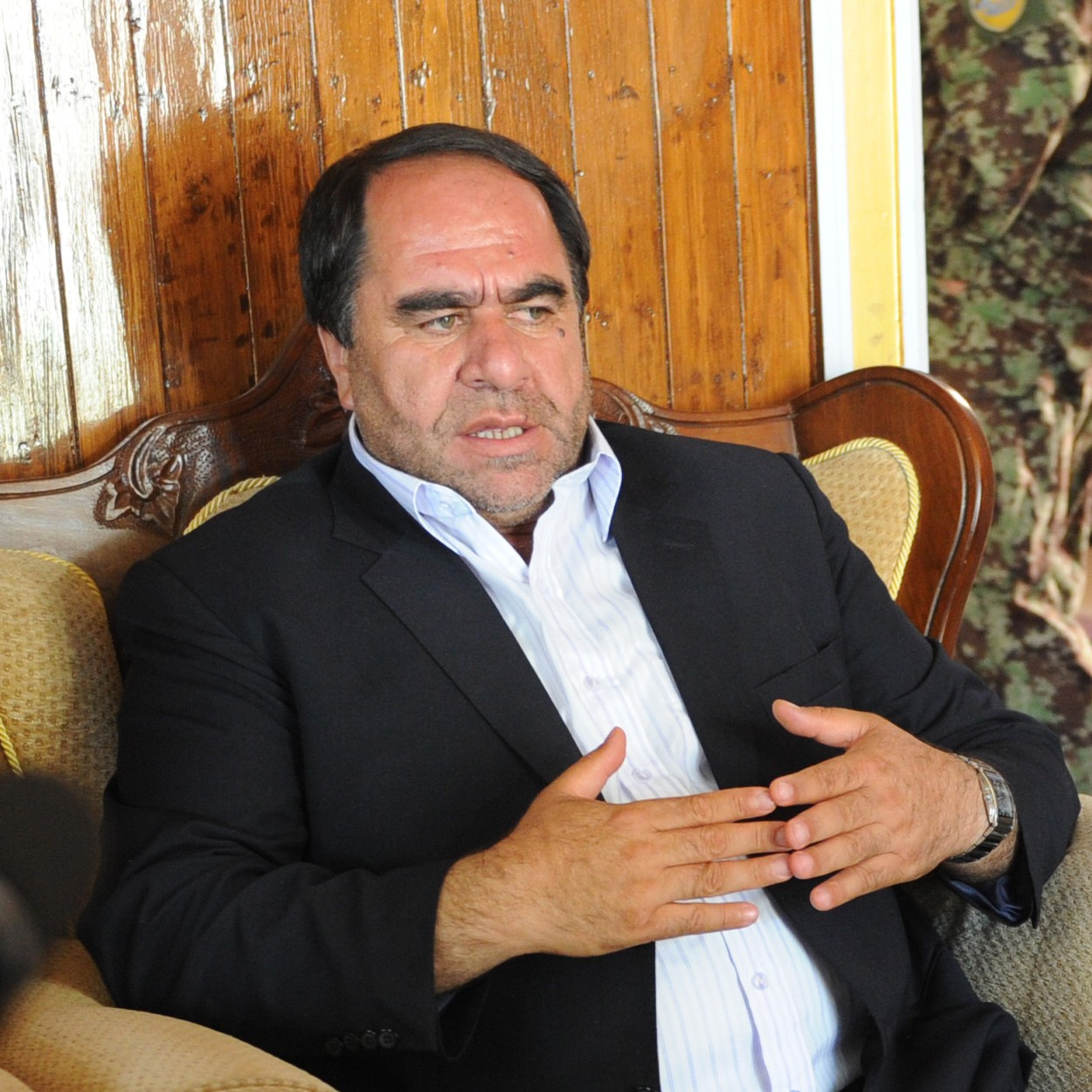 Governor Keramuddin Karim answers questions during a press conference at the Astana Guest House in Panjshir Province, Afghanistan.